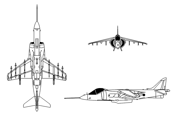 A 3-view illusation of a McDonnell Douglas/BAe AV-8B Harrrier II